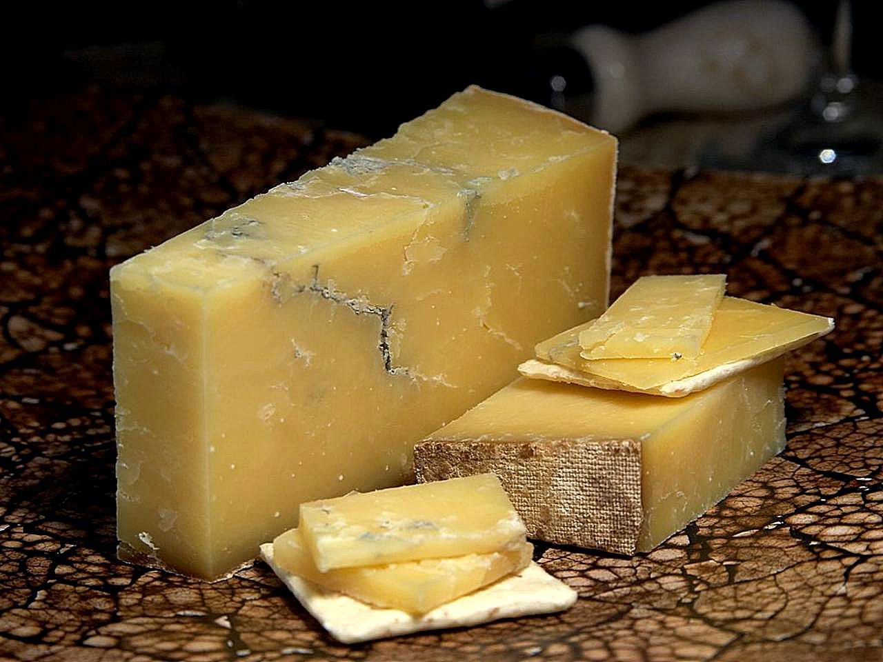 Image title: Montgomerys cheddar cheese Image from Public domain images website